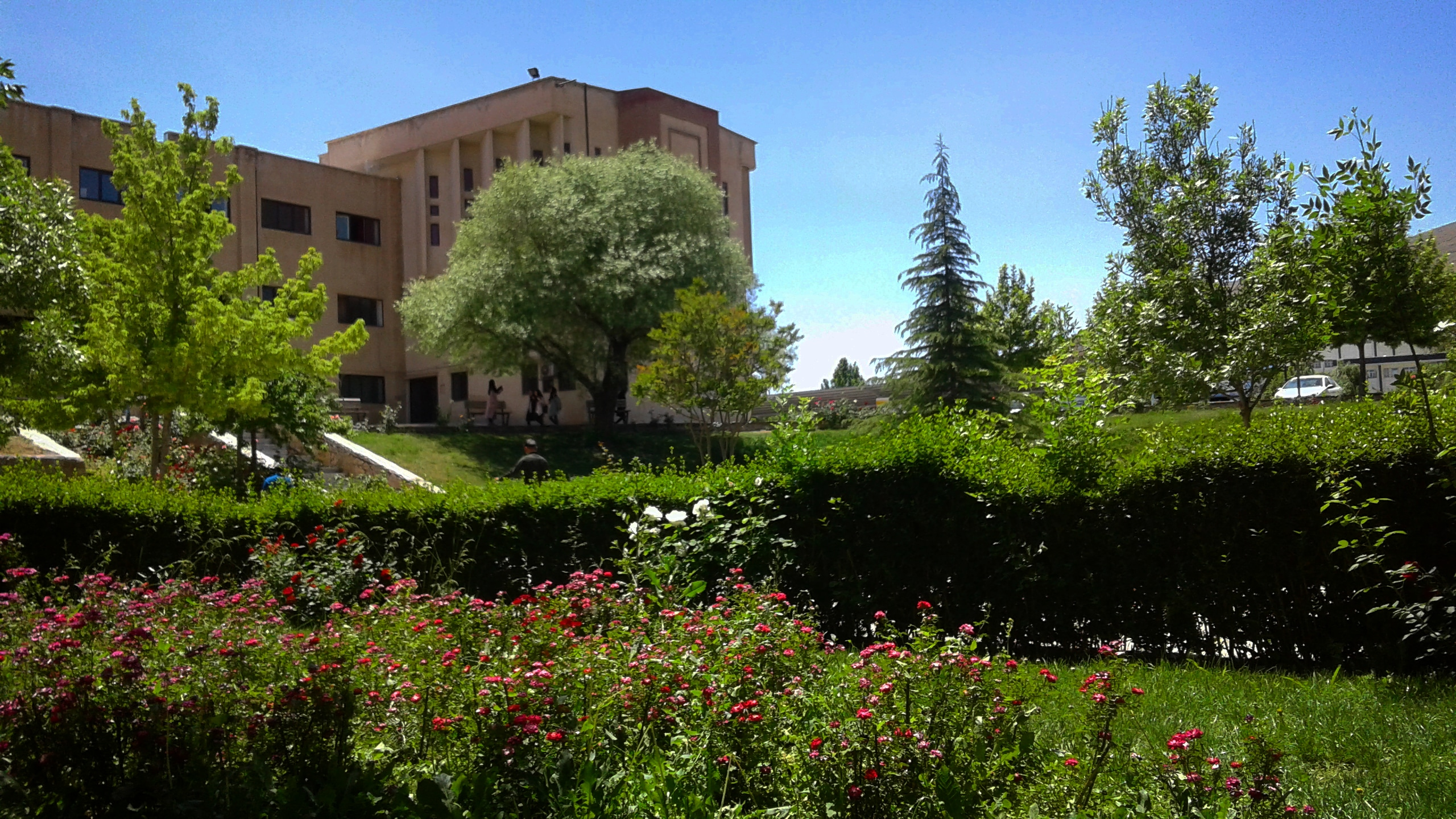 Univesrity of Kurdistan campus